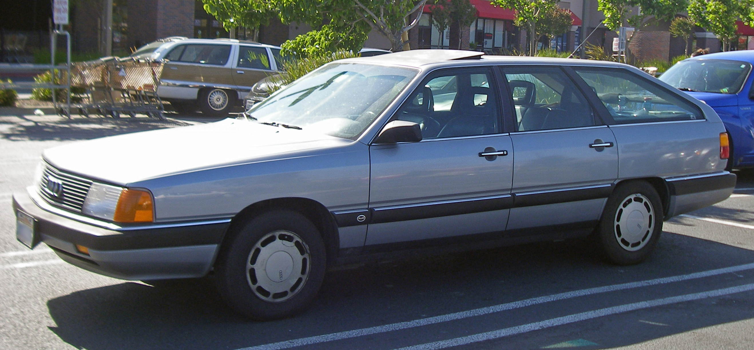 1985 Audi 5000 wagon (California)